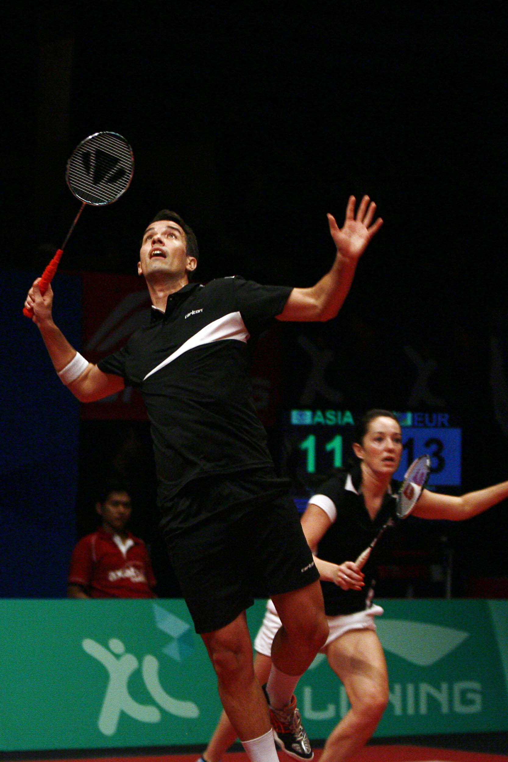 Nathan R - Jenny Wallwork at 2013 Axiata Cup